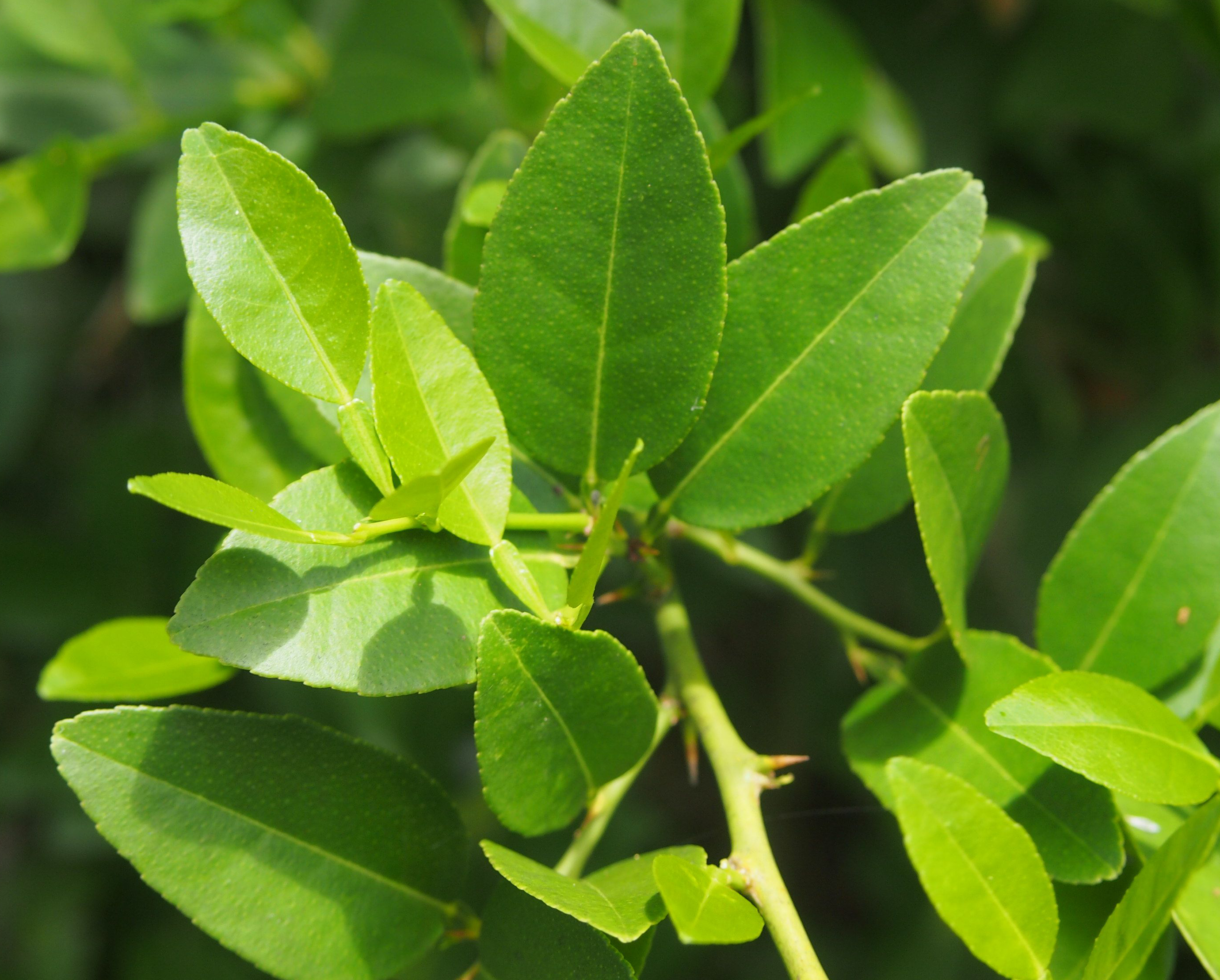 Citrus australis foliage